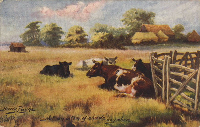 Oilette postcard of cows lying in an open field. Part of the "By Mead and Stream " series.